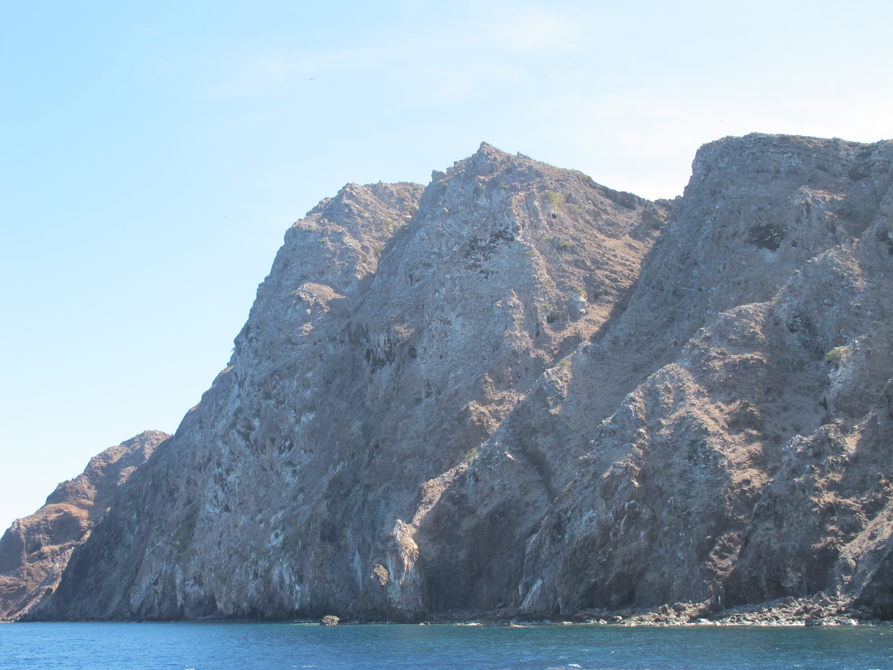 The west (leeward) coast of the uninhabited island of Redonda, Leeward Islands, West Indies, consists almost entirely of very steep cliffs many hundreds of feet high